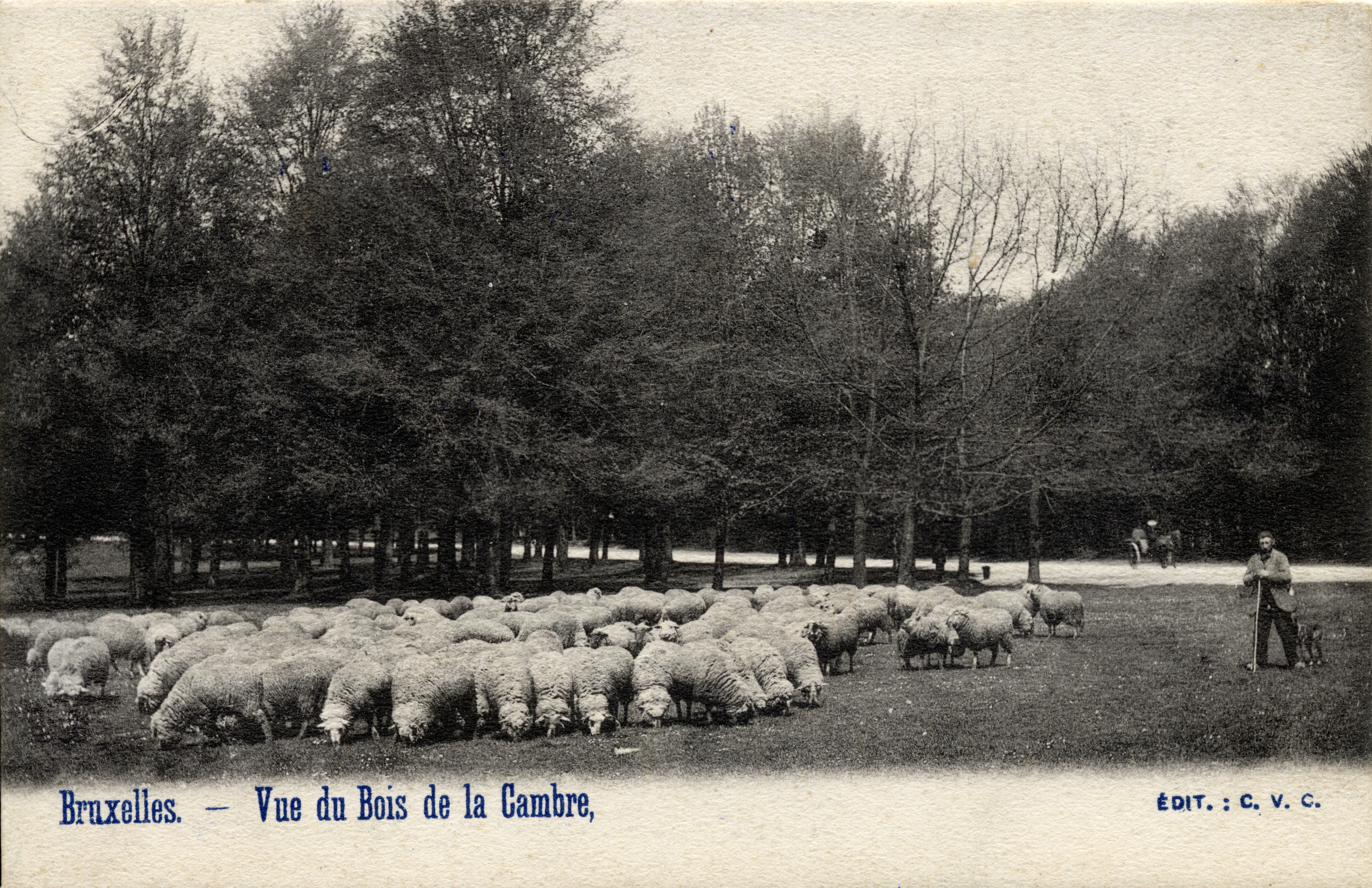 Brussels,sheeps in the Bois the la Cambre,postcard 1902